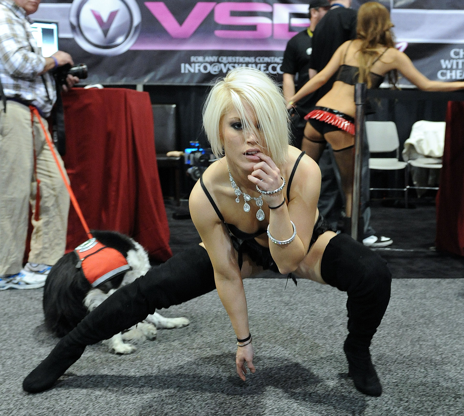 Ash Hollywood at AVN Adult Entertainment Expo 2011